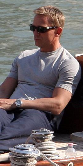 Daniel Craig on a yacht in Venice during a break in filming Casino Royale.